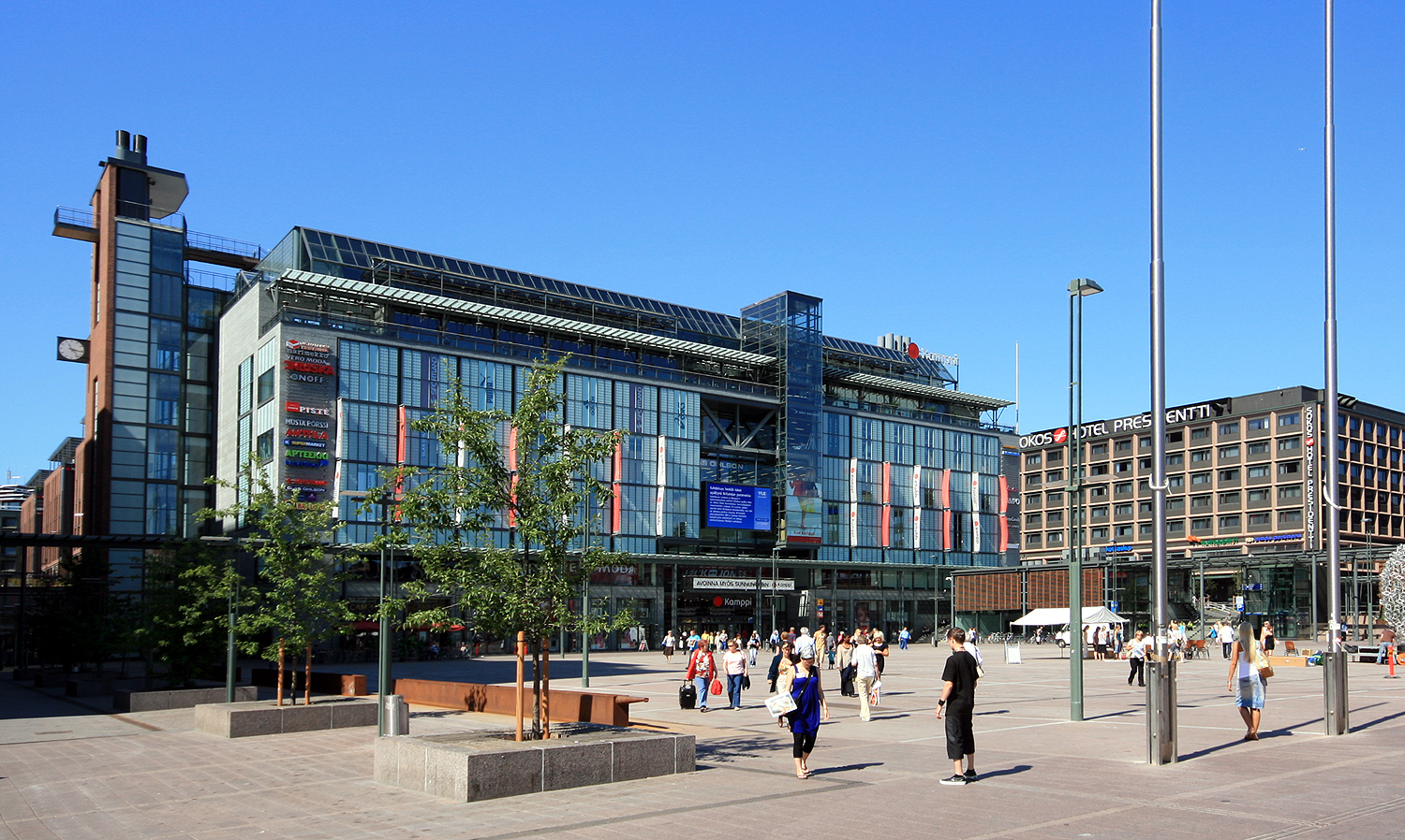 Kamppi Center, Helsinki, Finland. Opened 2006.